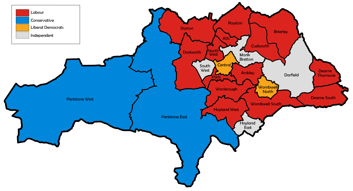 Ward map of Barnsley council with political colouring for the 2000 election.